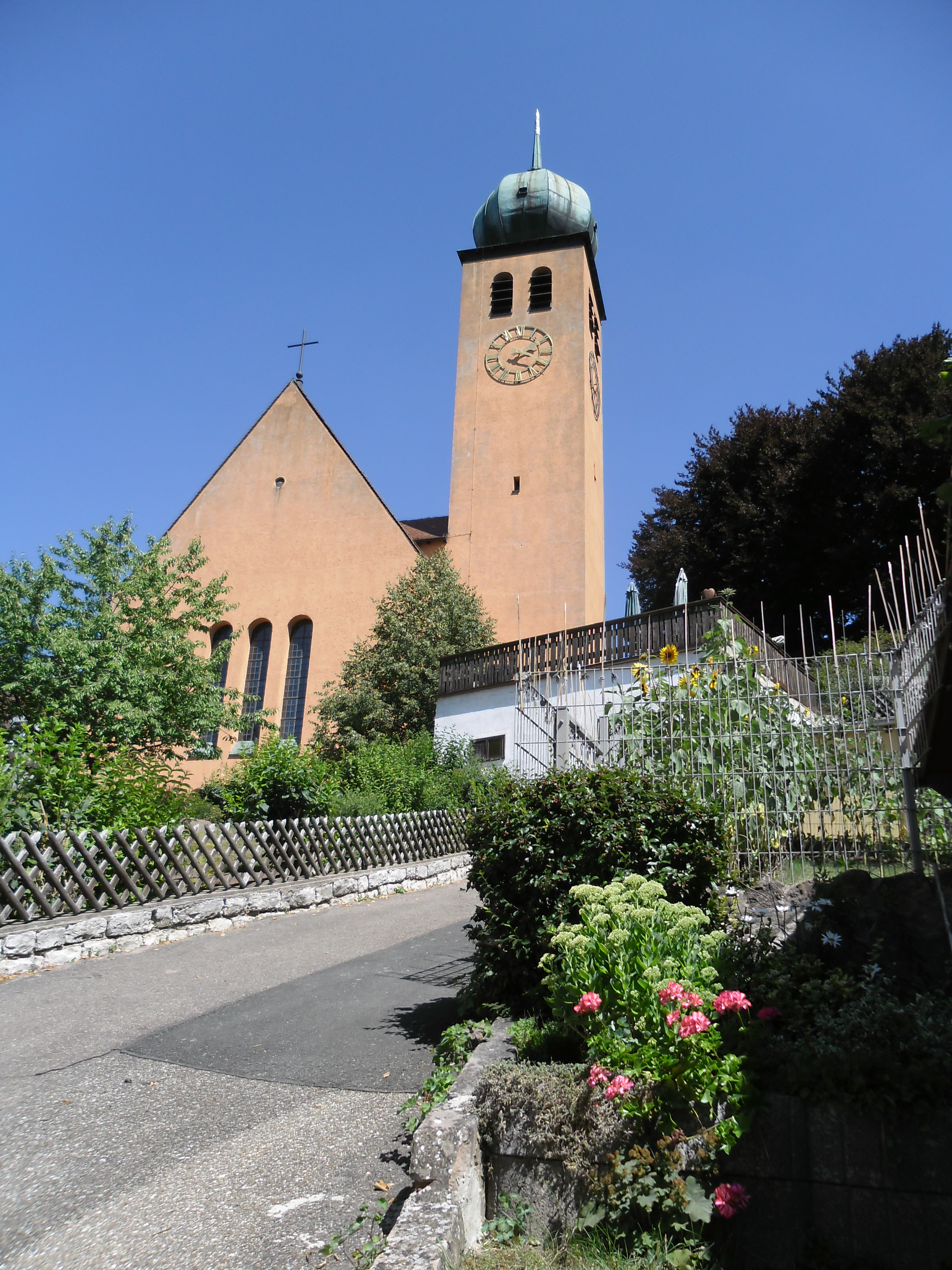 St. Martin's Church in Bruckberg in Middle Franconia, built by Christian Ruck from Nuremberg in 1935